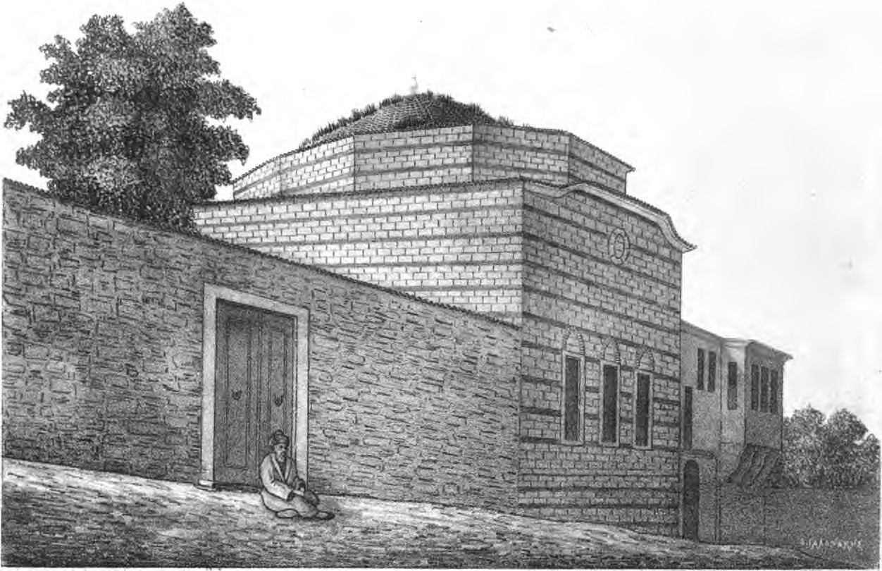 Byzantinai meletai topographikai (1877) Author: Paspatēs, Alexandros Geōrgiou, 1814-1891. [from old catalog] Subject: Inscriptions, Greek Year: 1877 Possible copyright status: NOT_IN_COPYRIGHT Language: English Digitizing sponsor: Google Book contributor: Oxford University Collection: europeanlibraries